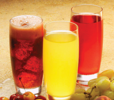 Beverages with several naturally derrived colors